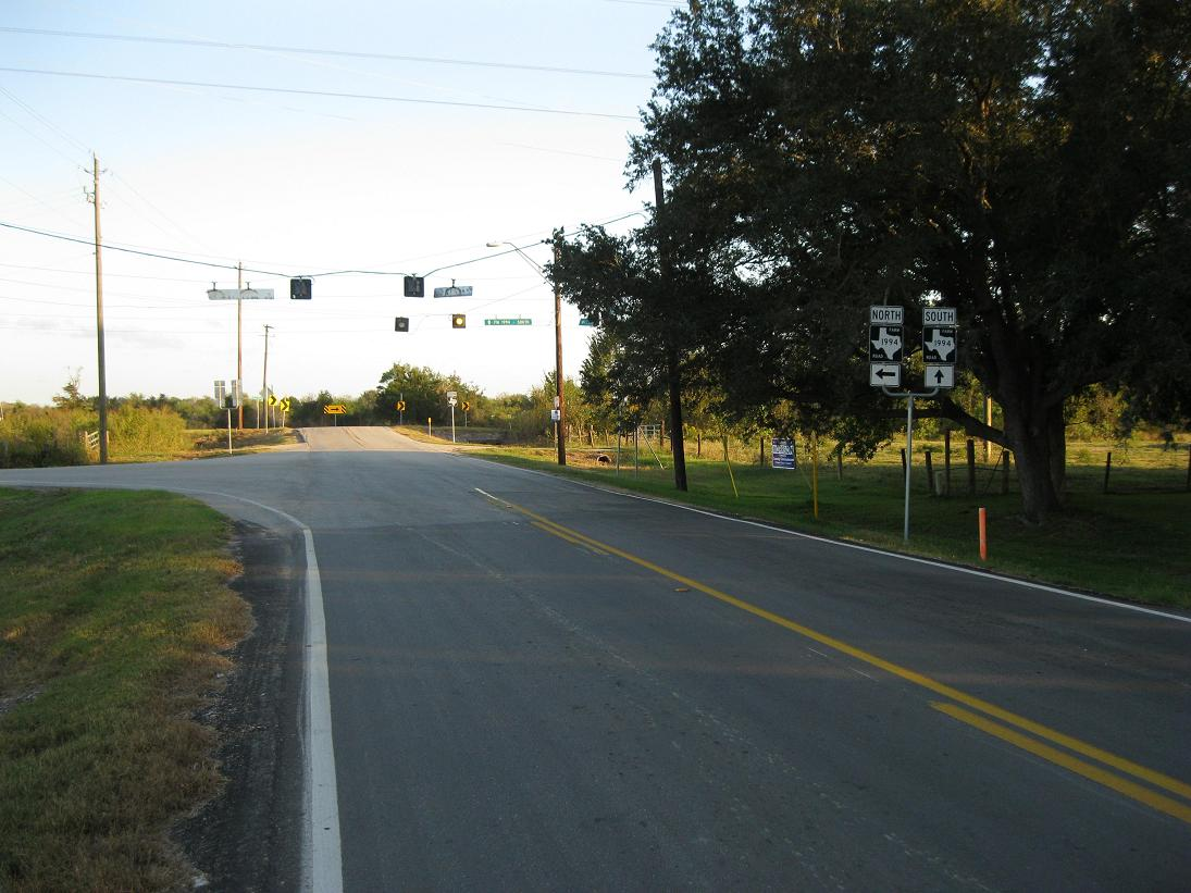 Photo shows intersection of FM 1994 at Long Point, Texas. View is to the southeast on FM 361.